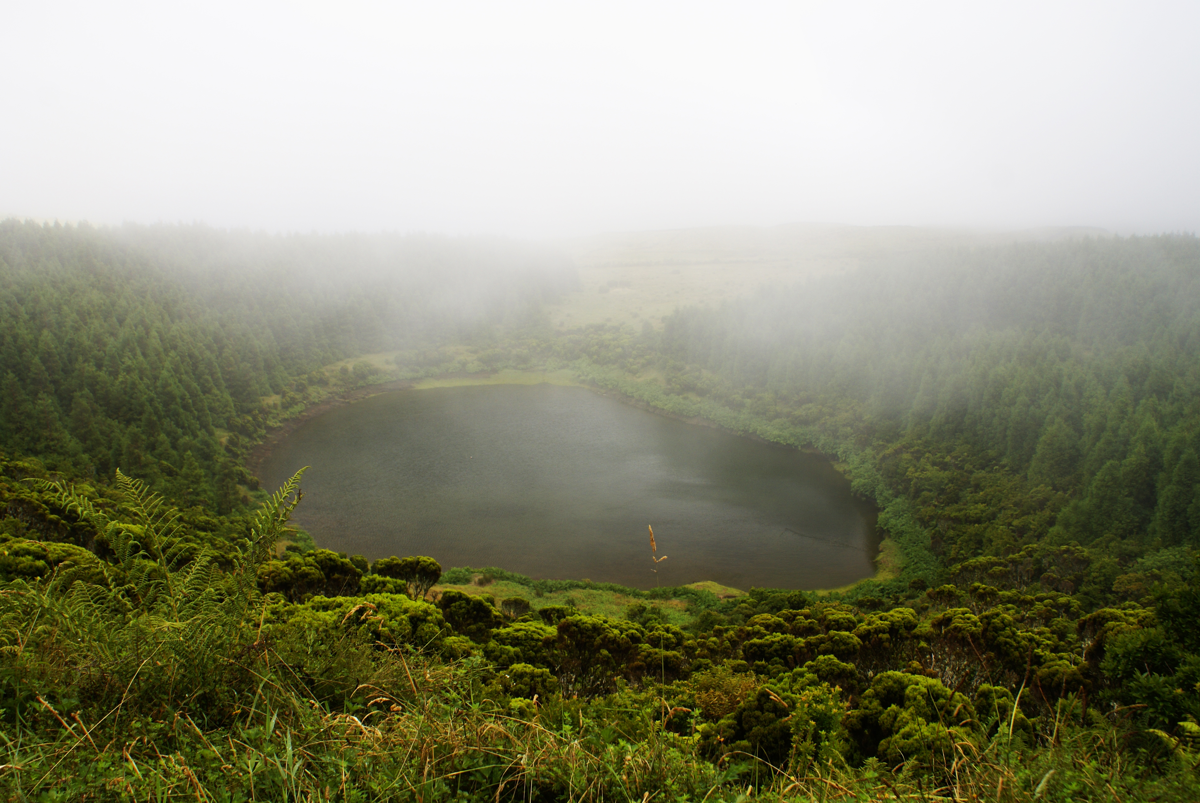 Lagoa Seca, in the municipality of São Roque do Pico, island of Pico, Azores (Portugal)